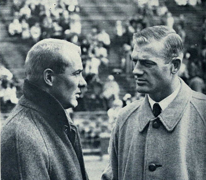 Photograph of brothers Pete Elliott and Bump Elliott greeting one another before the 1960 Michigan-Illinois football game This work is in the public domain because it was published in the United States between 1923 and 1963 and although there may or may not have been a copyright notice, the copyright was not renewed. Unless its author has been dead for the required period, it is copyrighted in the countries or areas that do not apply the rule of the shorter term for US works, such as Canada (50 pma), Mainland China (50 pma, not Hong Kong or Macao), Germany (70 pma), Mexico (100 pma), Switzerland (70 pma), and other countries with individual treaties. See Commons:Hirtle chart for further explanation. This work is in the public domain in the United States because it was published in the United States between 1923 and 1977 without a copyright notice. See Commons:Hirtle chart for further explanation. Note that it may still be copyrighted in jurisdictions that do not apply the rule of the shorter term for US works (depending on the date of the author's death), such as Canada (50 p.m.a.), Mainland China (50 p.m.a., not Hong Kong or Macao), Germany (70 p.m.a.), Mexico (100 p.m.a.), Switzerland (70 p.m.a.), and other countries with individual treaties.